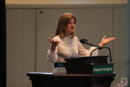 Arianna Huffington